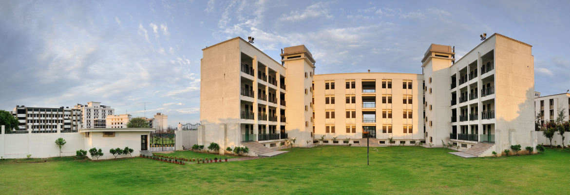 ABESIT Girls Hostel